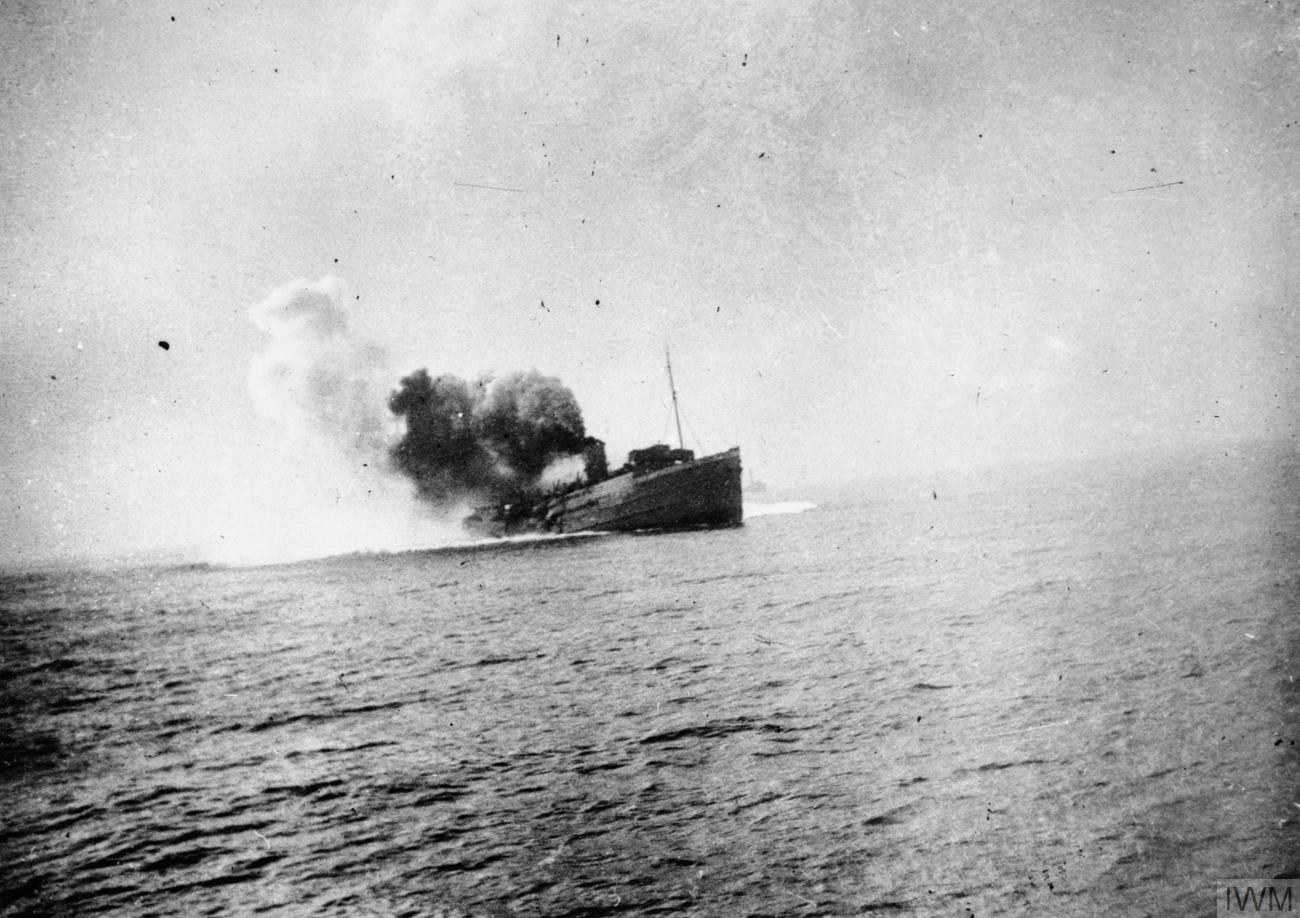 Dunkirk 1940 The Isle of Man steam ferry SS Mona's Queen sinking after striking a mine off Dunkirk, 29 May 1940.